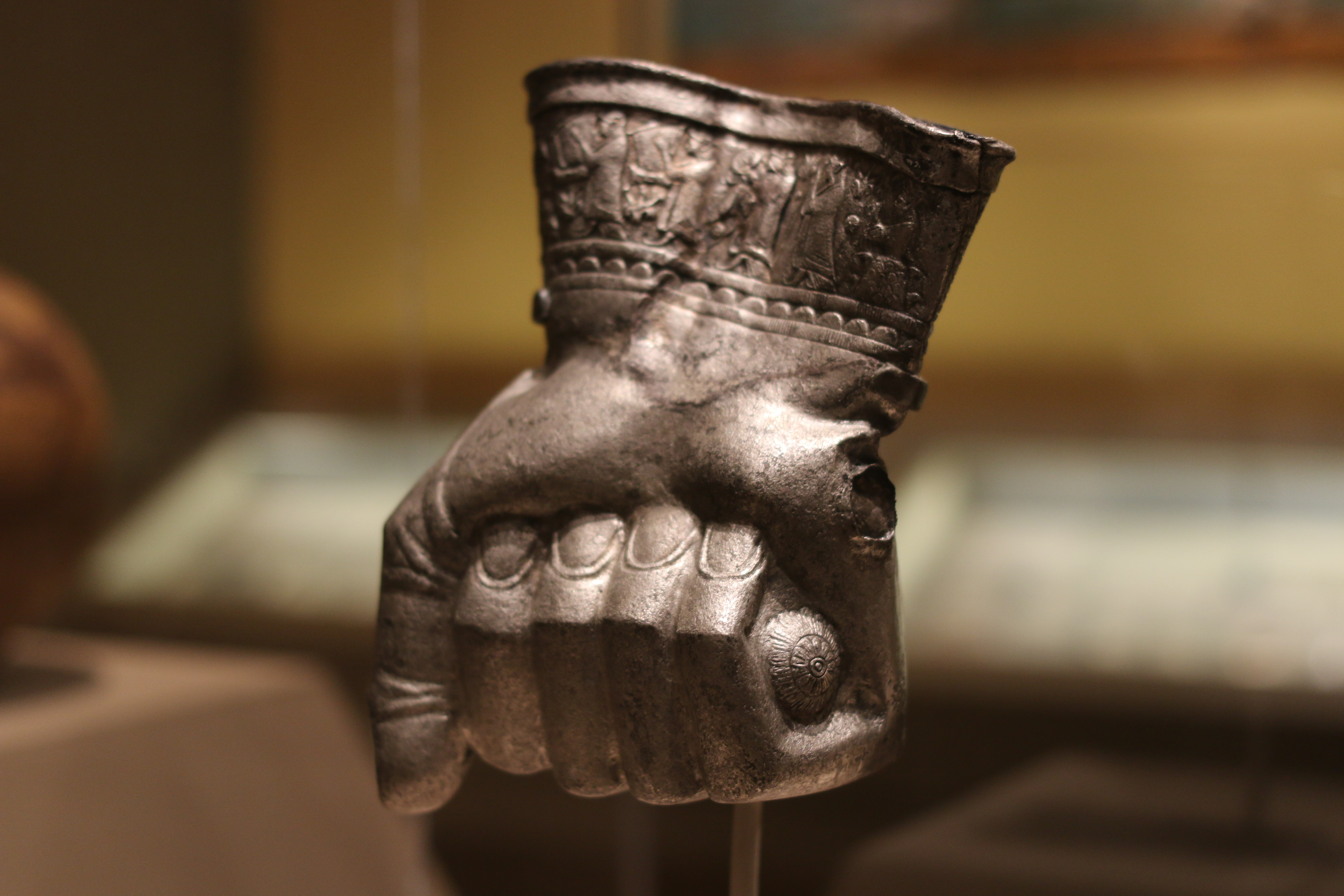 Text from museum placard: Drinking cup in the shape of a fist Central Turkey, Hittite, probably reign of Tudhaliyas III, about 1400-1380 B.C. Silver Surviving Hittite objects in precious metal are very rare. This cup was evidently used for rituals connected with the weather god, Tarhuna, who appears holding a bull in the frieze around the rim. The named donor of the cup was "Great King Tudhaliyas," who is shown leading priests and musicians from a city over a mountain, personified as a human figure covered with leaves. The fist shape probably evoked a Hittite hieroglyph meaning "strength," and the cup may have been presented to the god so that he would grant strength to the royal donor when the contents were drunk. Gift of Landon and Lavinia Clay in honor of Malcolm Rogers, 2004 2004.2230